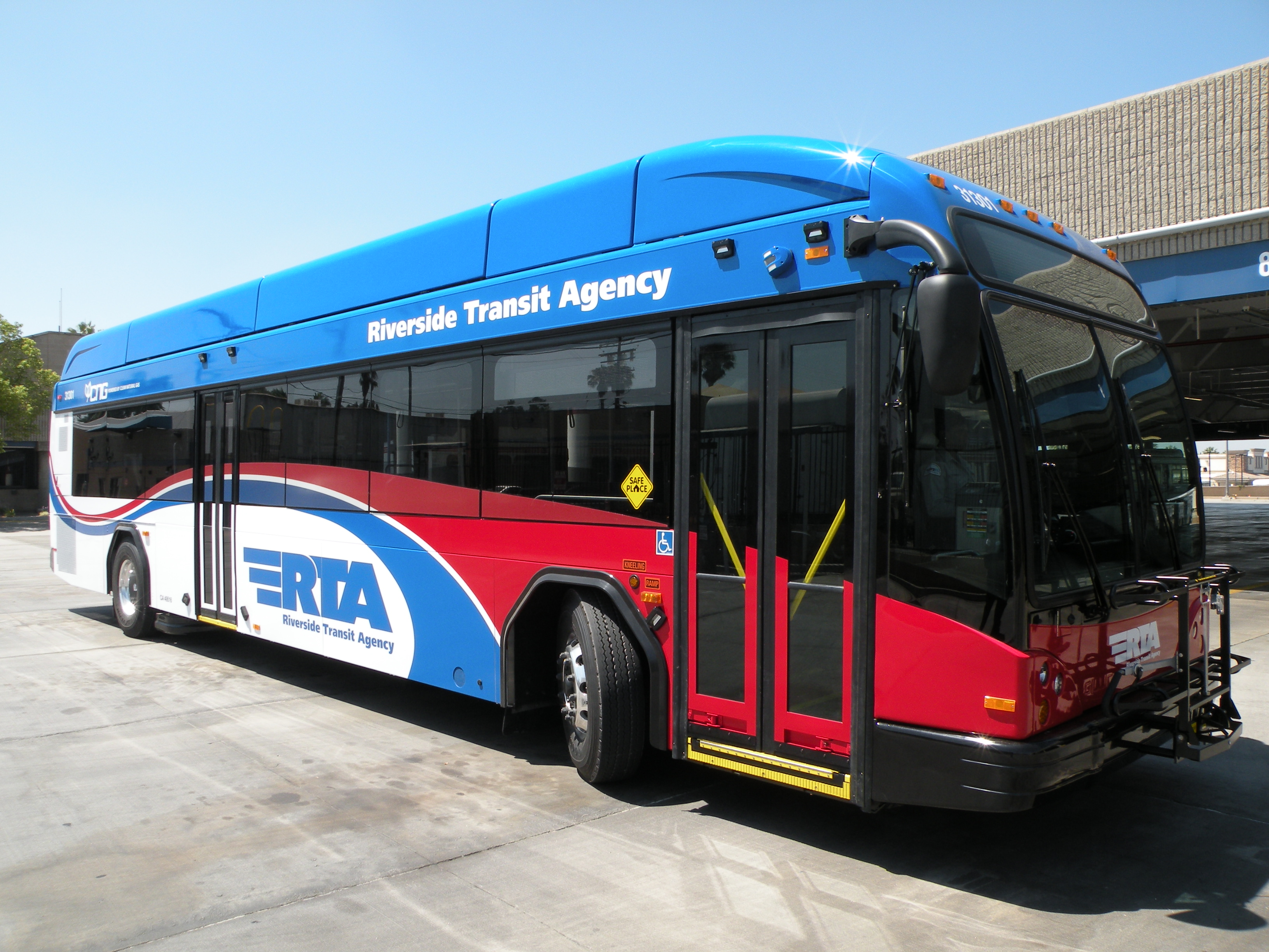 Gillig BRTPlus